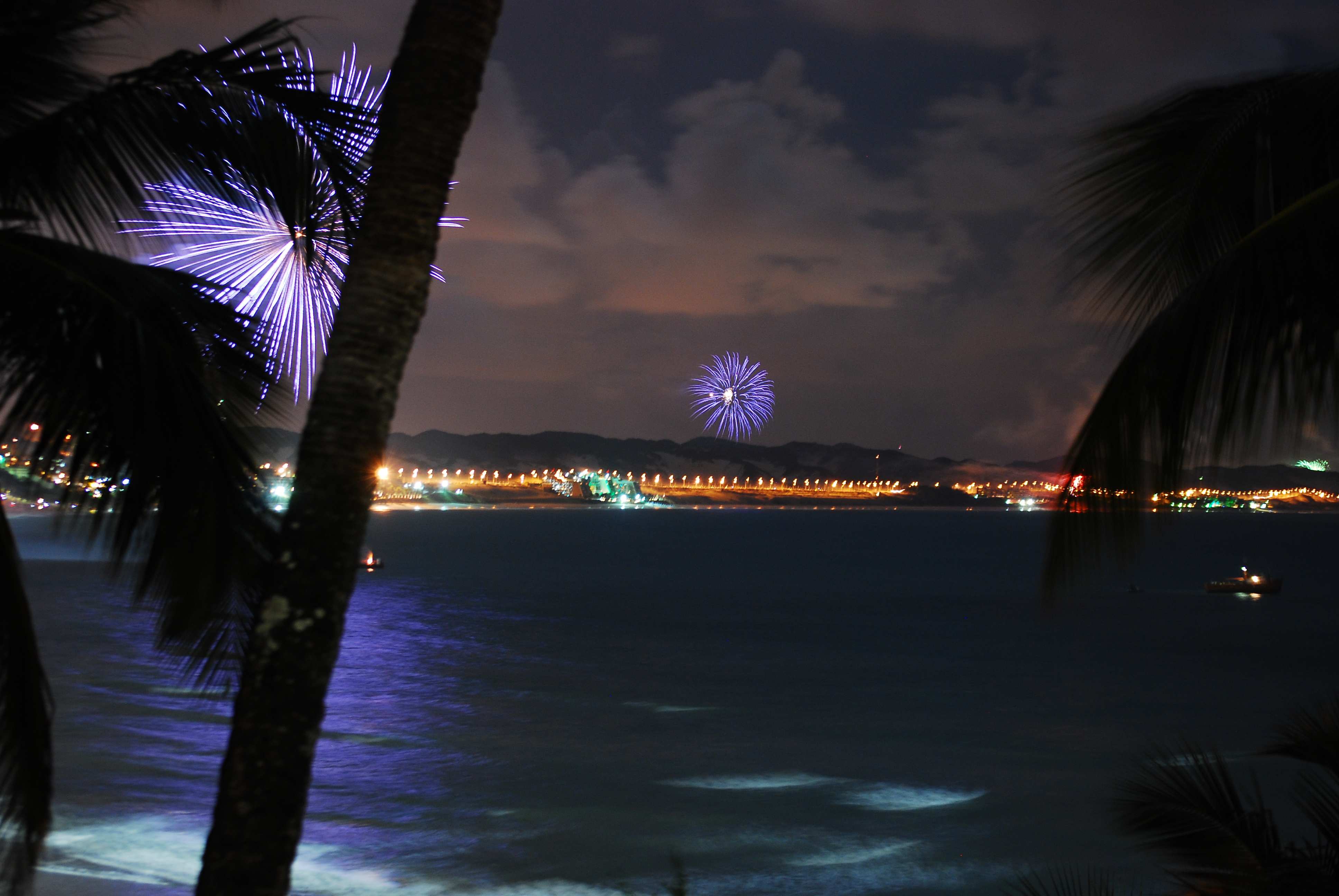 New Year in Ponta Negra beach in Natal, Rio Grande do Norte, Brazil.